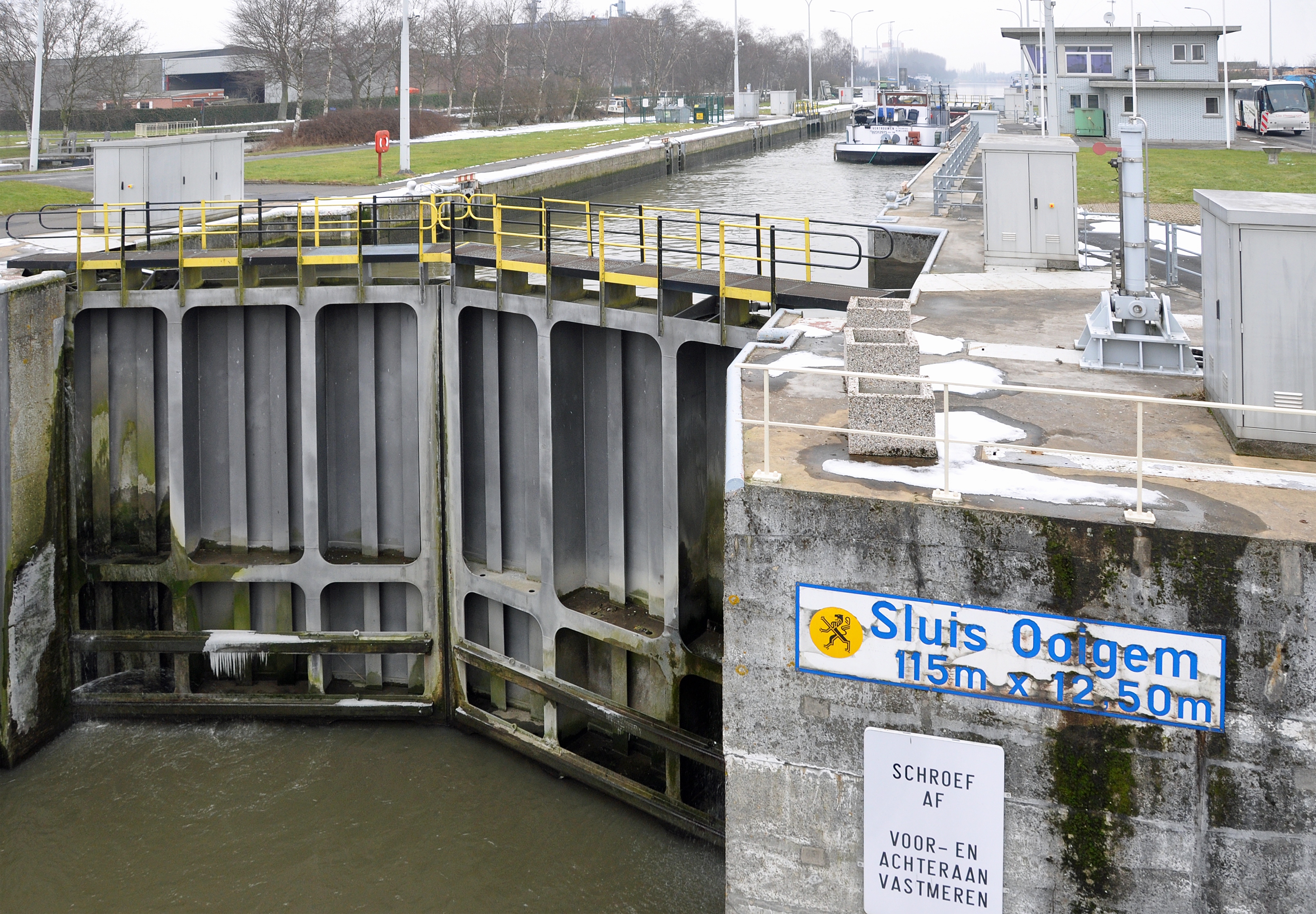 Ooigem (Wielsbeke, Belgium): new lock on the Roeselare-Leie canal, 1973